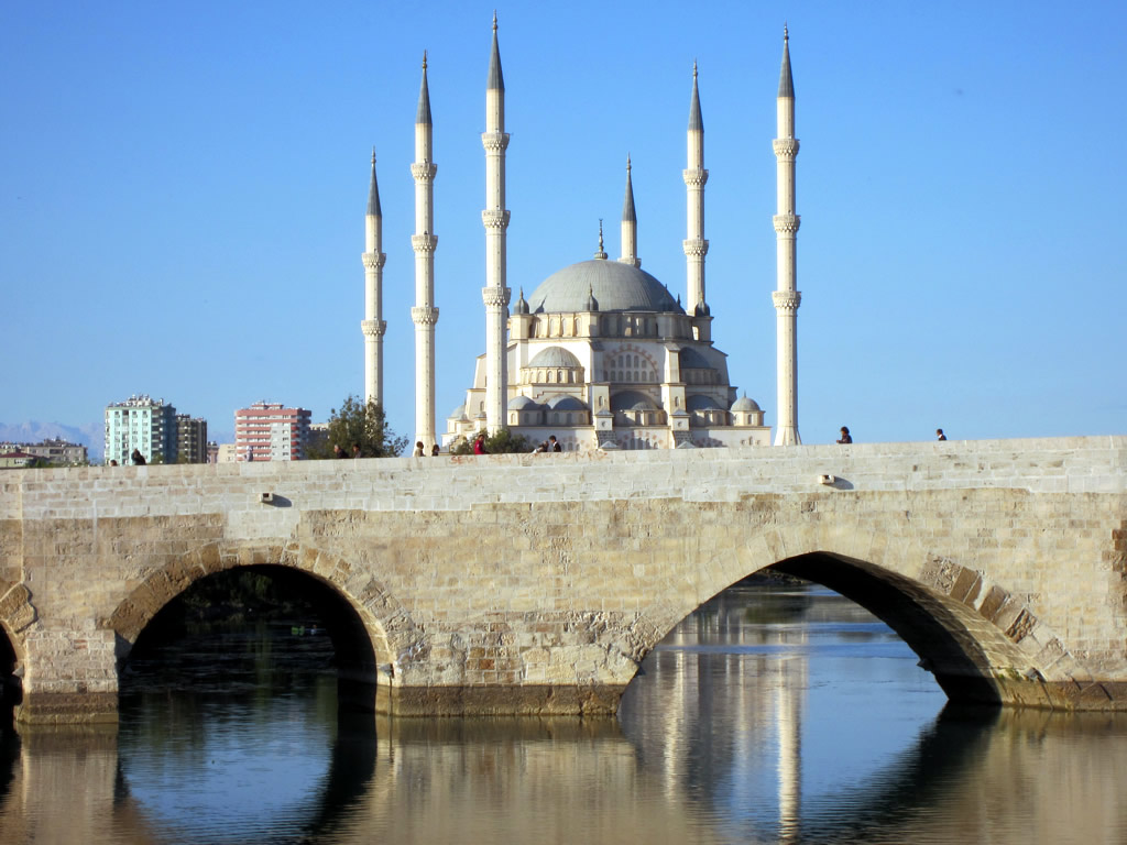 The modern Sabanci Merkez Mosque rises above an ancient Roman bridge in Adana.